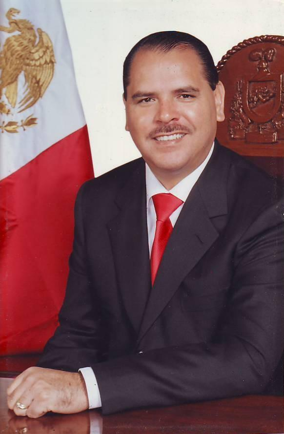 Profr. Gustavo Alberto Vázquez Montes, Politico mexicano y Gobernador de Colima